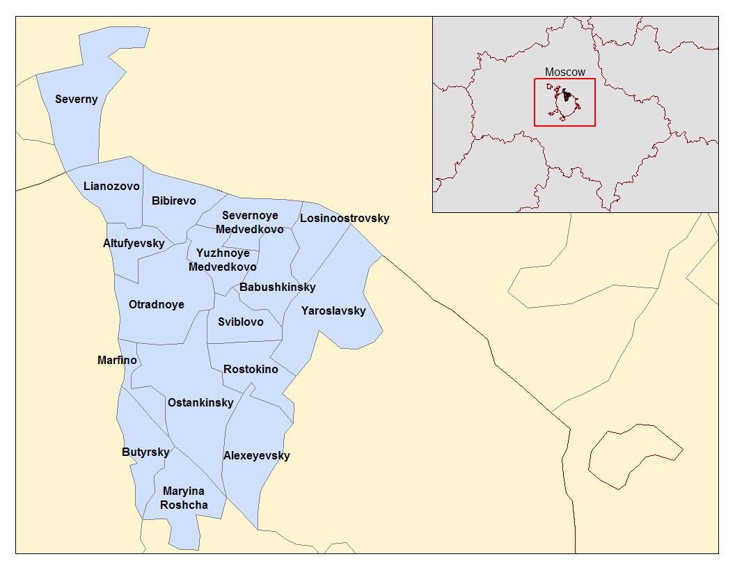 Map of the districts of the North Eastern Administrative Okrug of the Federal City of Moscow. Created by Rarelibra 20:33, 3 April 2007 (UTC) for public domain use, using MapInfo Professional v8.5 and various mapping resources.